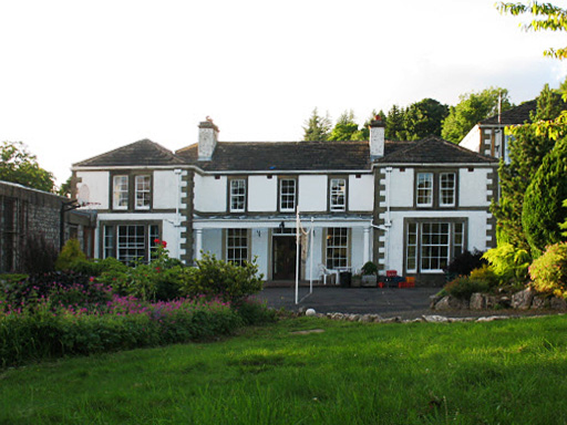 Scargill House: the old house, built in the 19th century around an 18th century farm building and purchased by the Holdsworth family in 1900